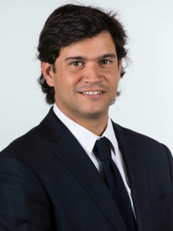 Official photograph of Sebastián Torrealba as deputy of the Republic of Chile in 2018